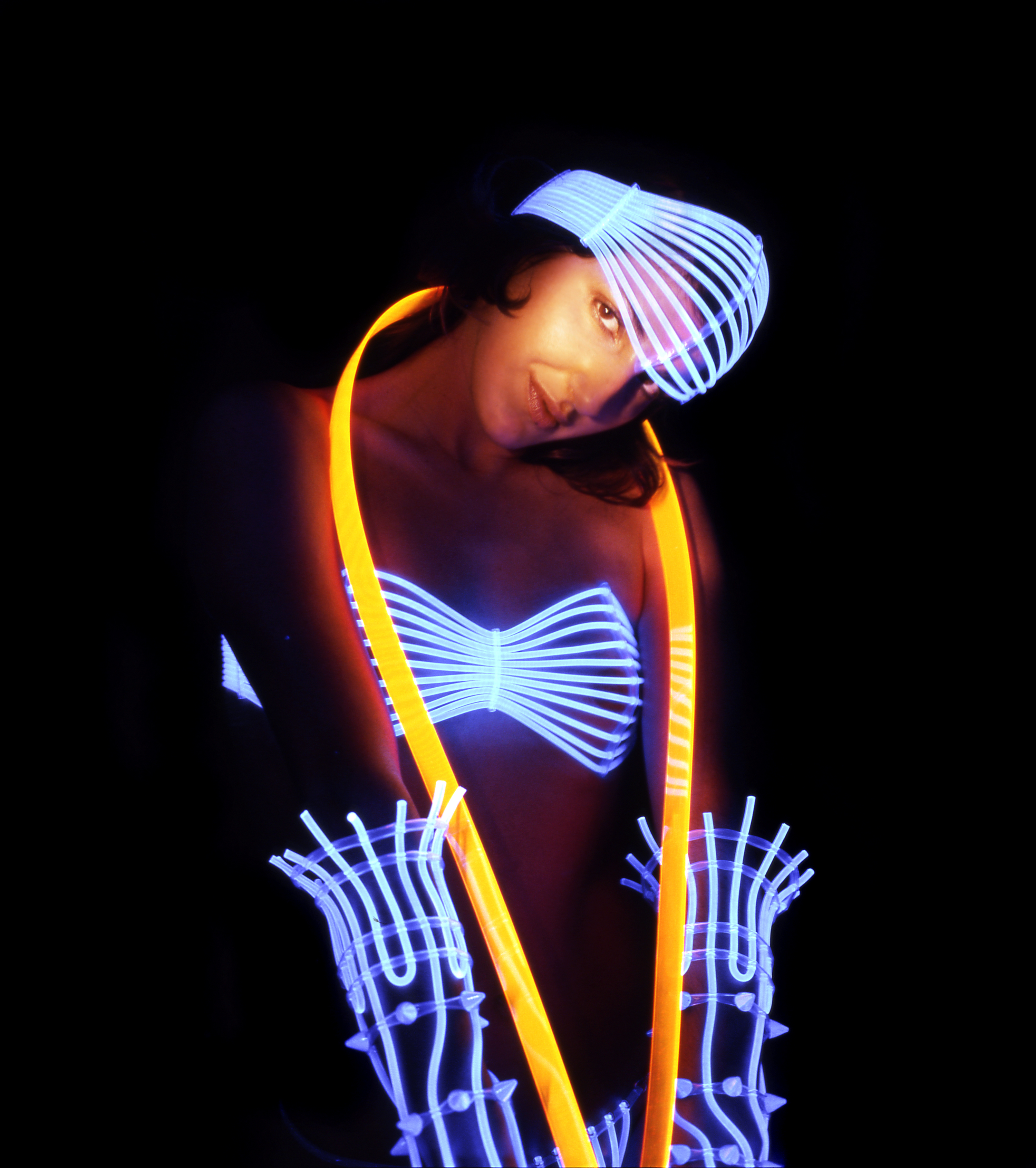 The artist Beo Beyond creates light-up costumes with fluorescent materials and blacklight. They are all unique one-offs, not produced in series. This photo was taken at the artist´s studio in Barcelona (Spain) with the model Mercydeez.